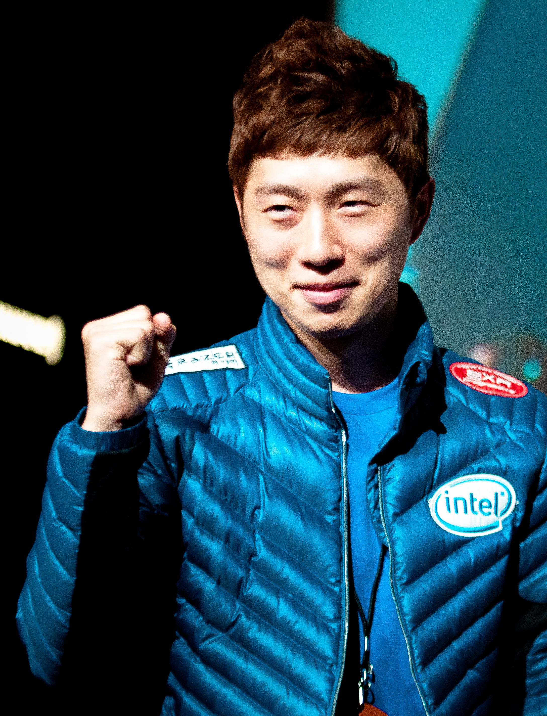 Boxer fighting!